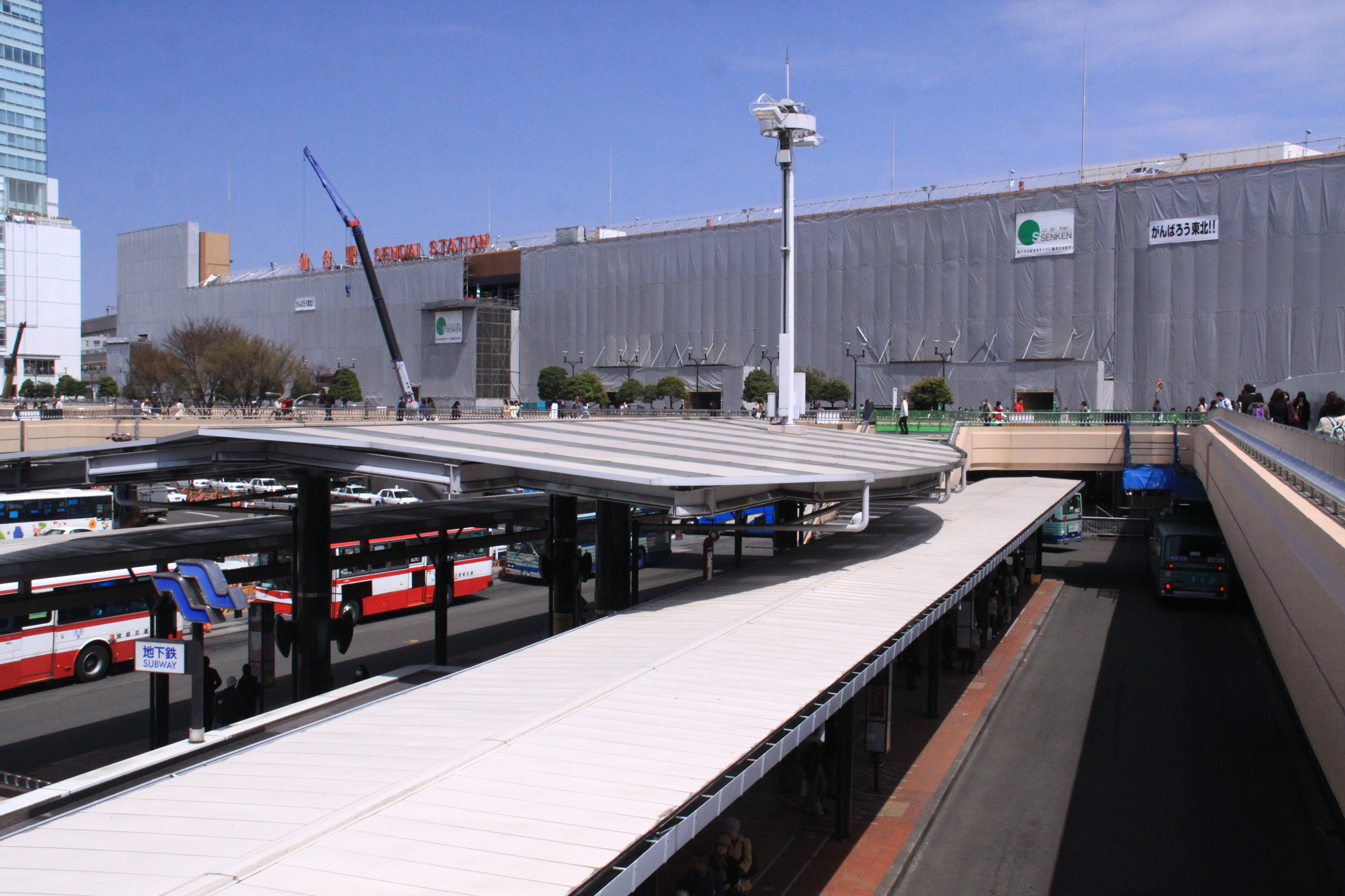 Sendai Station being restored of damage due to earthquake in Sendai, Miyagi.